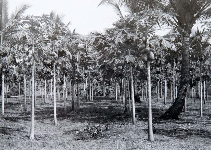 Papaya trees at a fruit-growing experimental station near Pasar Minggu, Batavia